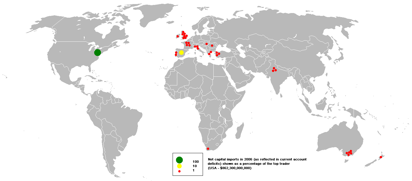 This bubble map shows the global distribution of net capital imports (as reflected in current account deficits) in 2006 as a percentage of the top trader (USA - $862,300,000,000). This map is consistent with incomplete set of data too as long as the top producer is known. It resolves the accessibility issues faced by colour-coded maps that may not be properly rendered in old computer screens. Data was extracted on 19th June 2007. Source - Based on :Image:BlankMap-World.png